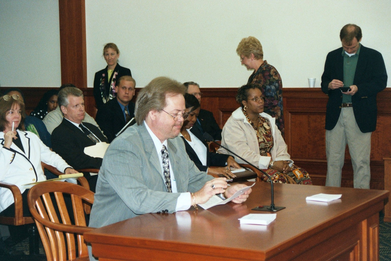 Merrill Osmond testifies at the Michigan Legislature in June 2002 on behalf of Wayne County Community College.